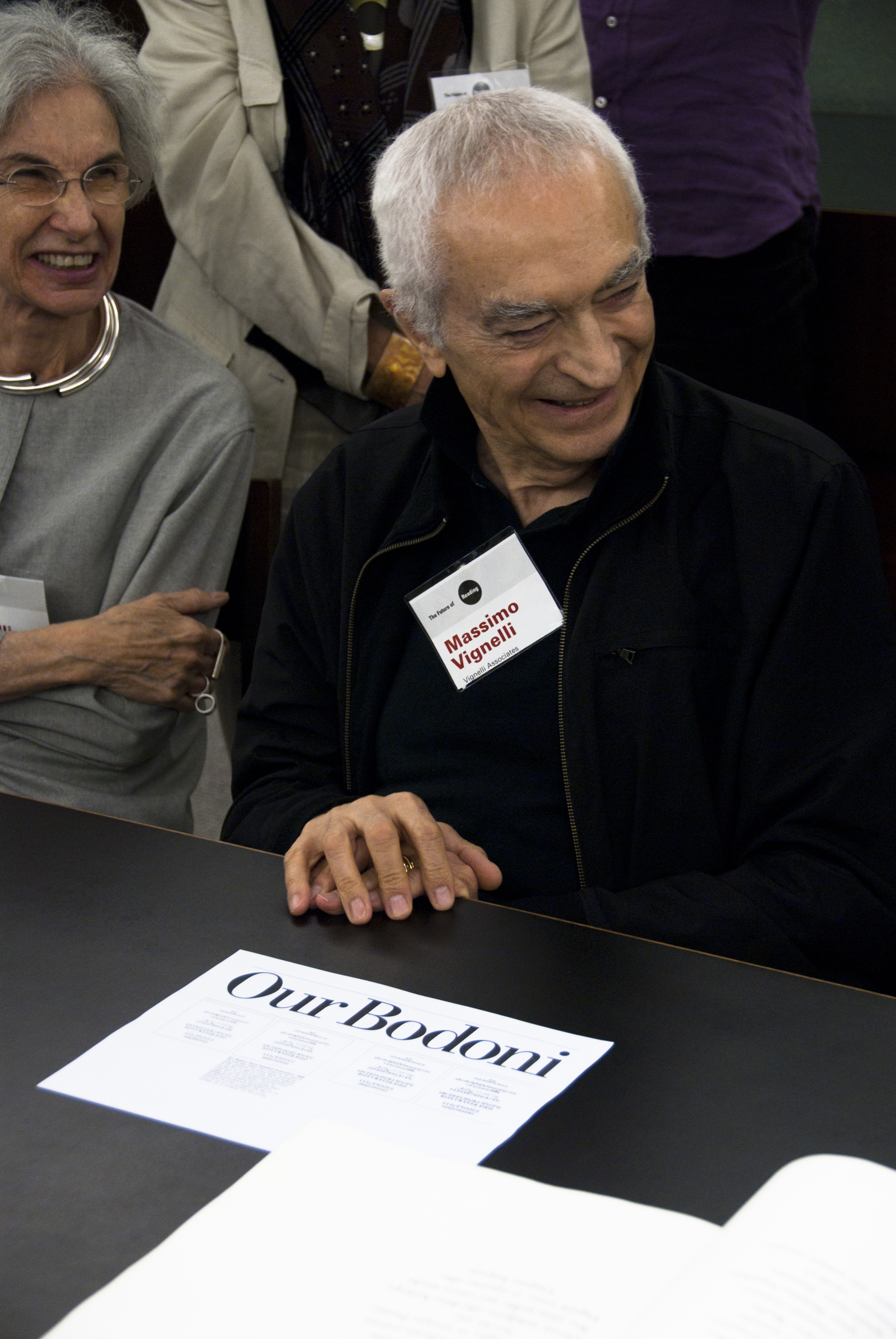 Designers Massimo Vignelli and Lella Vignelli at the Rochester Institute of Technology Cary Graphic Arts Collection with a specimen of his typeface, Our Bodoni.